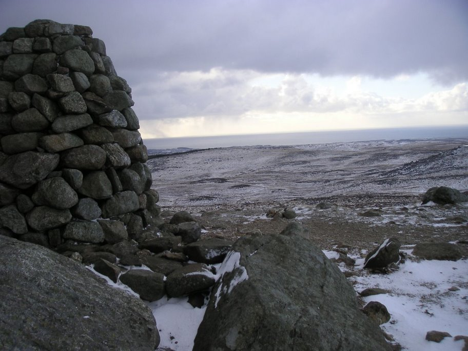 This is Synesvarden, an attractive goal at the end of a walking path in the moors of Hå kommune.